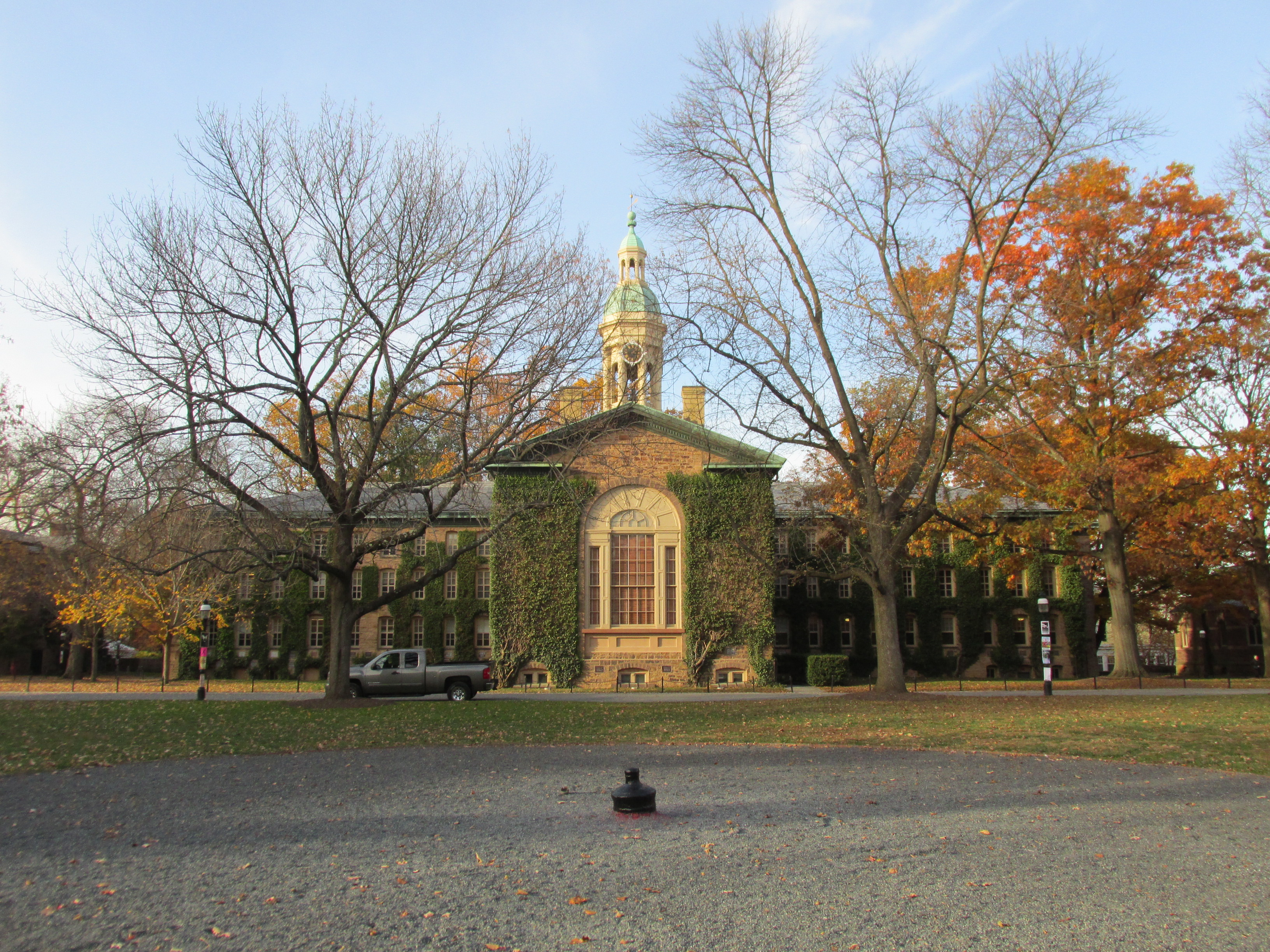 Nassau Hall, Princeton University, Princeton New Jersey